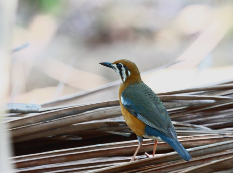 Zoothera citrina cyanotus, Kerala